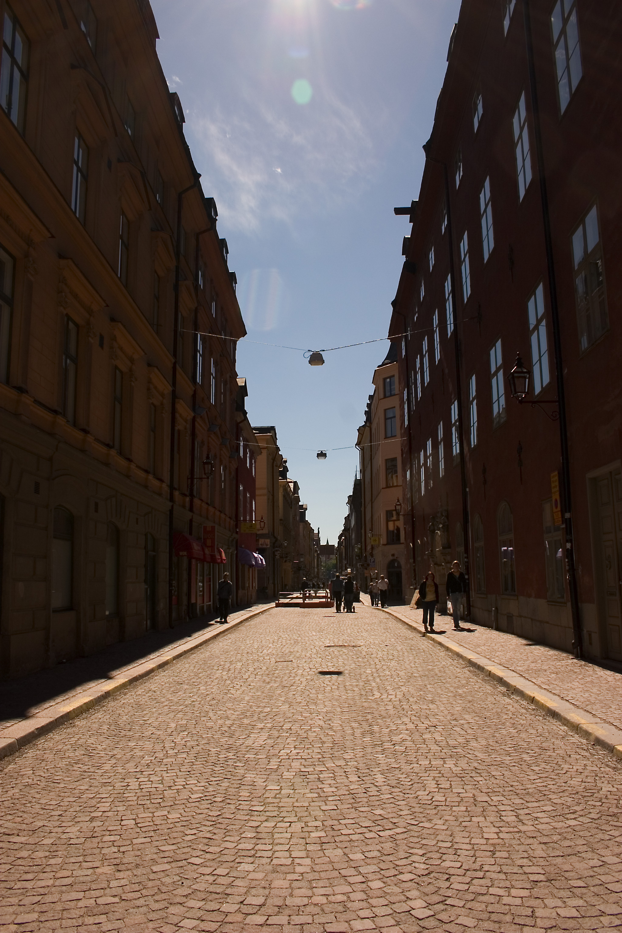 Most of the streets in Gamla Stan were cobbled, and beautifully maintained. Depicted here is Stora Nygatan, running along the western side of the old town.